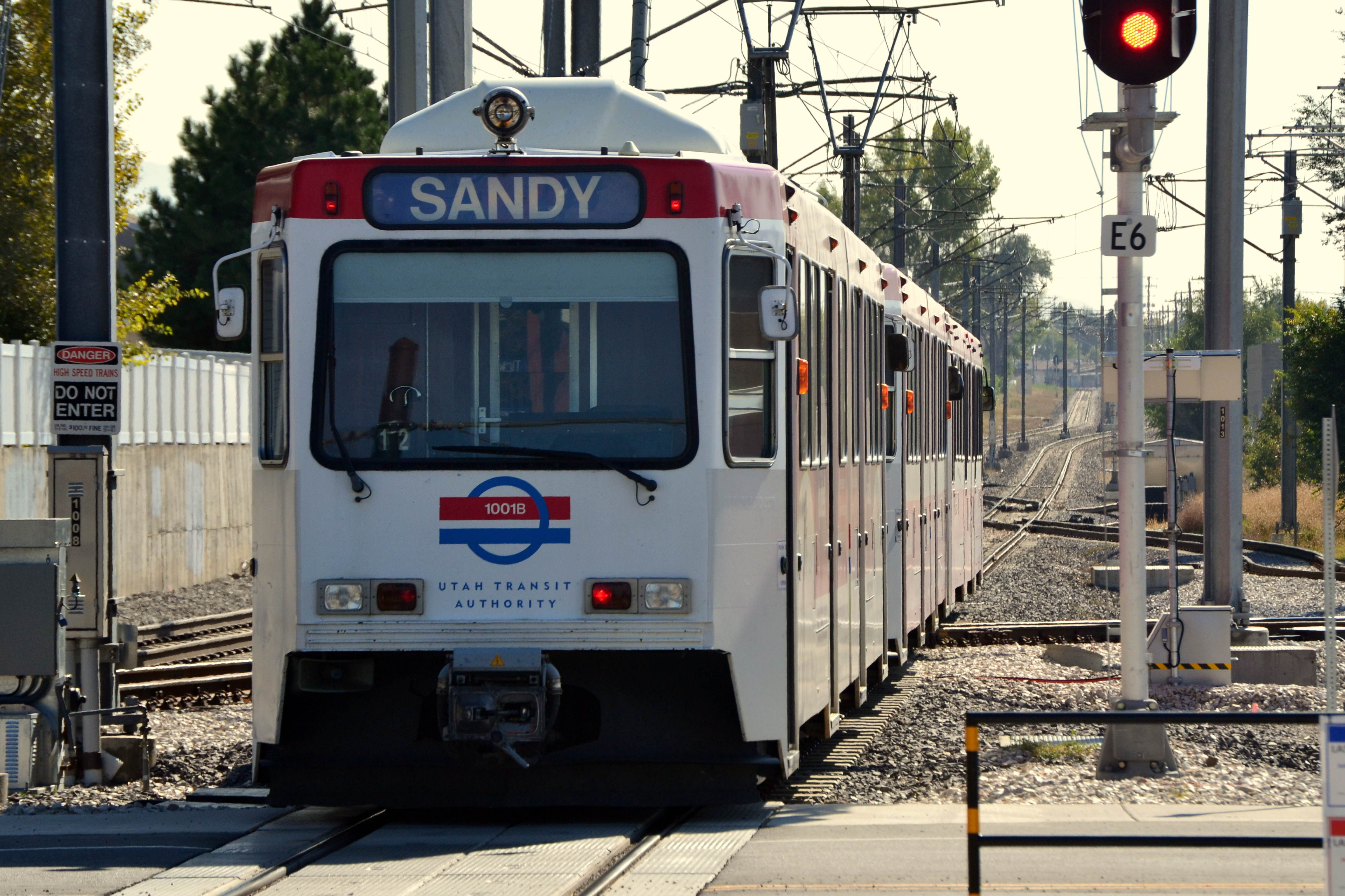 A Sandy-bound Blue Line train departing Fashion Place West. Red Line trains branch off to the right (with the track split visible) toward Daybreak.